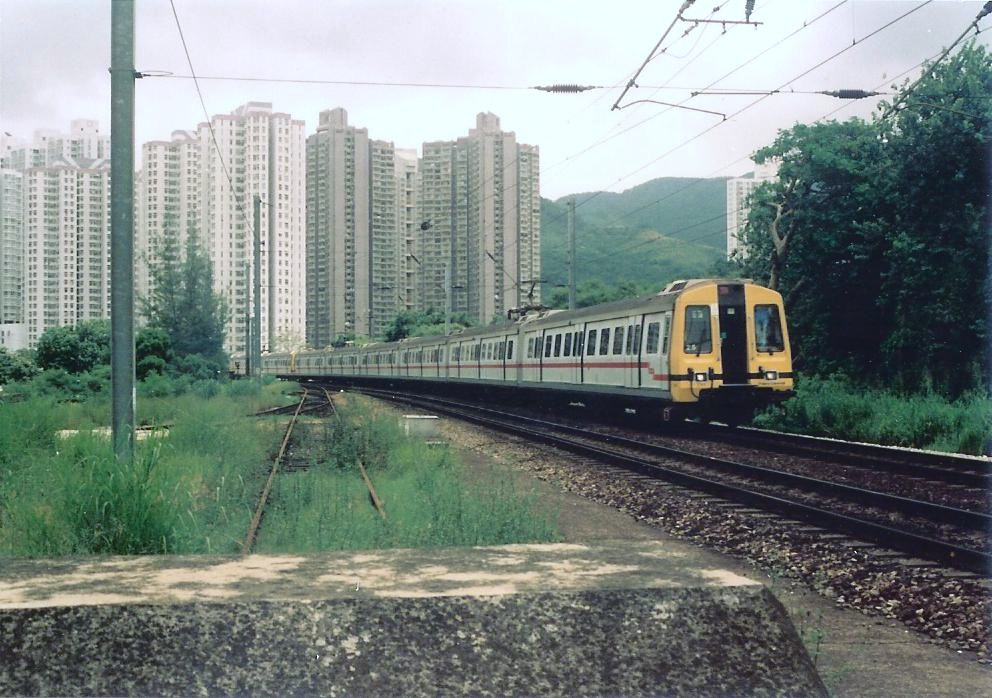 A northbound KCRC Metro Cammell AC EMU train approaches the former Tai Po Market railway station (now the Hong Kong Railway Museum) on the Kowloon–Canton Railway. These trains have since been refurbished, and are now operated by MTR Corporation. Scan of a colour print.